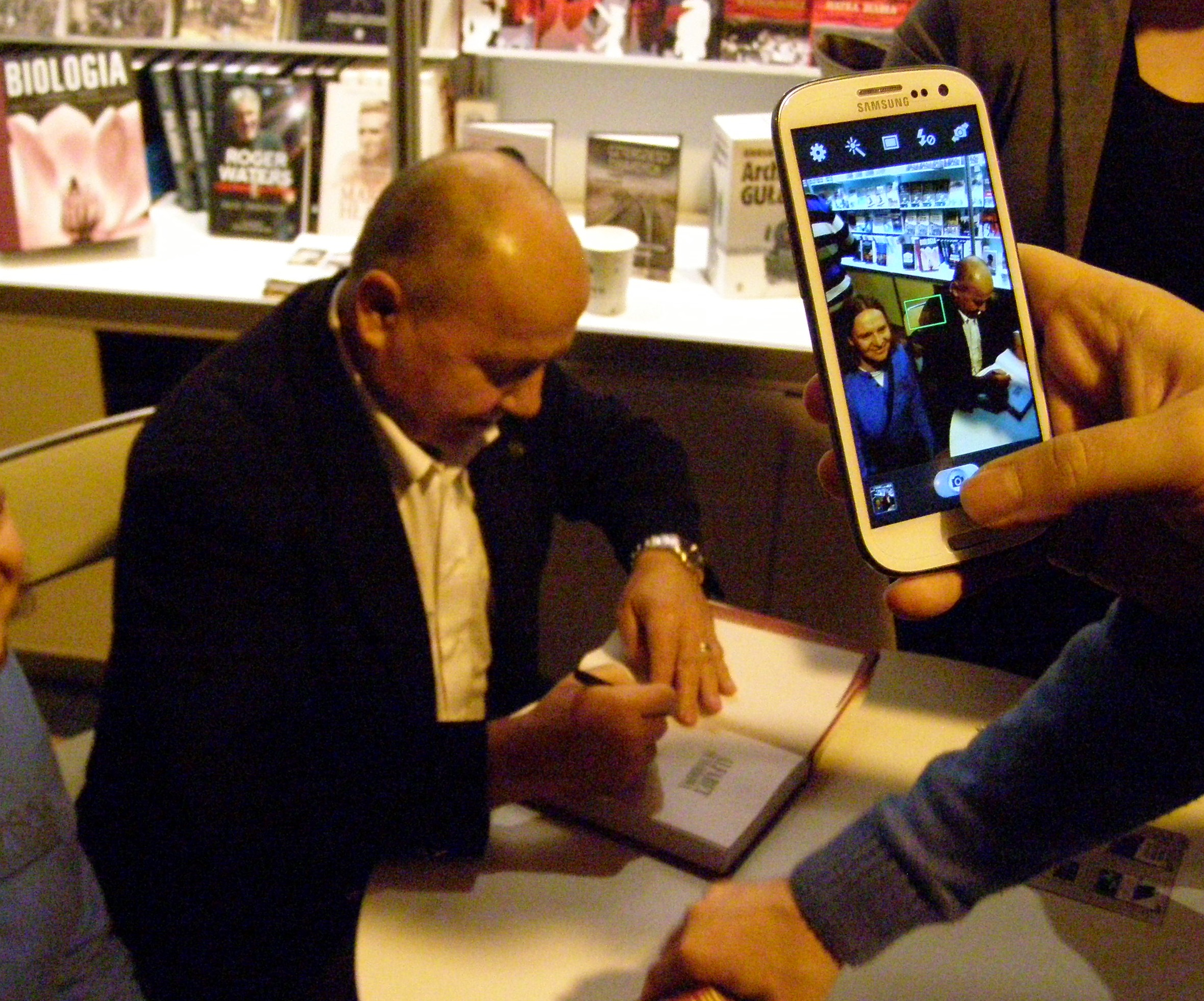 Viktor Suvorov, History Book Fair, Warsaw, 2014